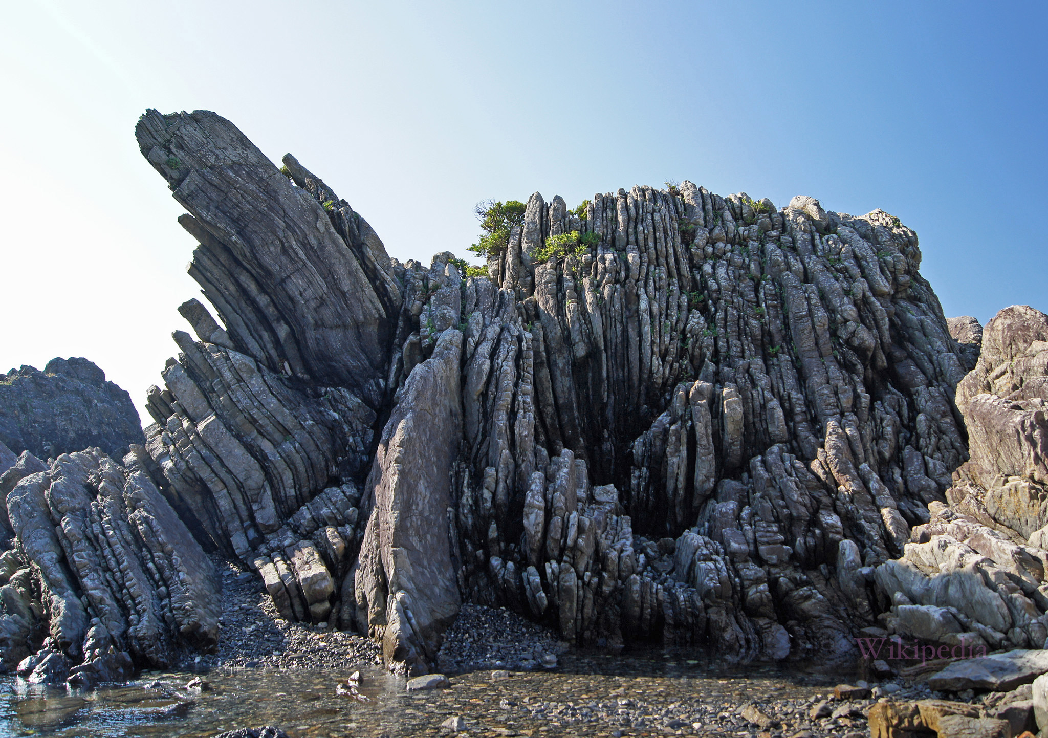 Turbidite in Muroto Geopark, Muroto, Kochi Prefecture, Japan.